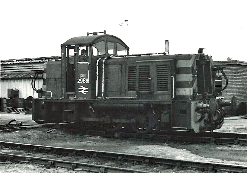 Ruston & Hornsby Class "07" 275 hp 0-6-0 No.2989 (later 07 005) in BR Rail Blue livery at the Eastleigh MPD Open Day, 05/73. Scanned photograph taken with a Kowa SET.